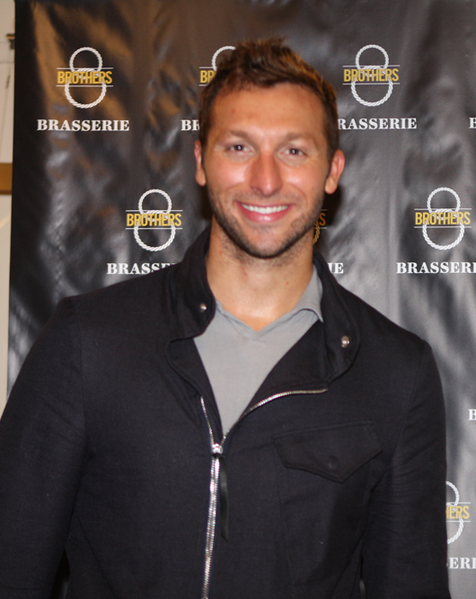 Ian Thorpe